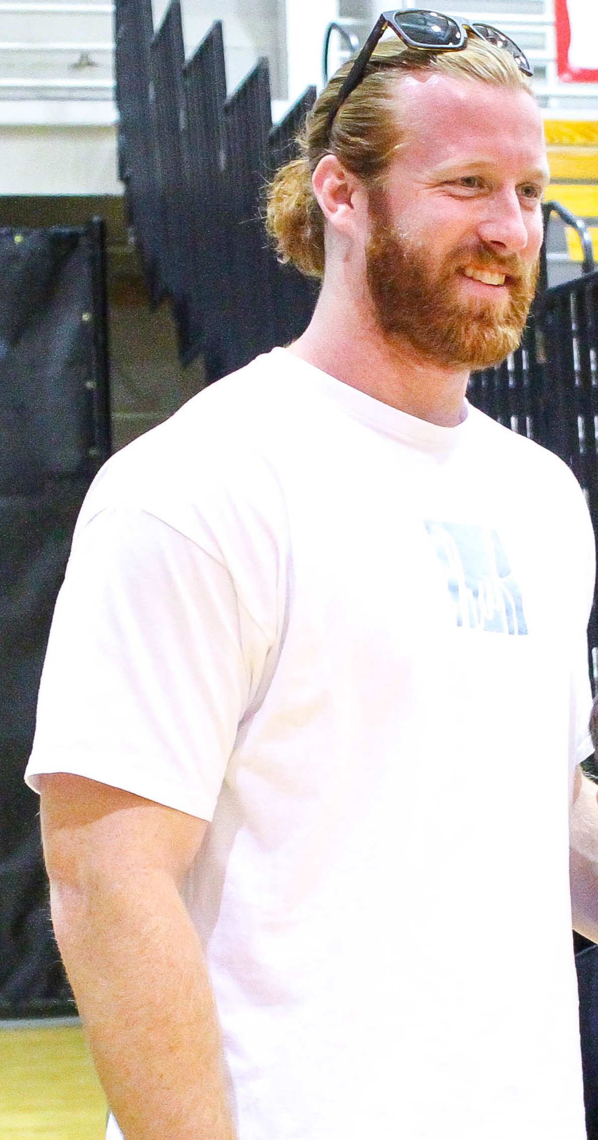 Photo by Katie Dugan